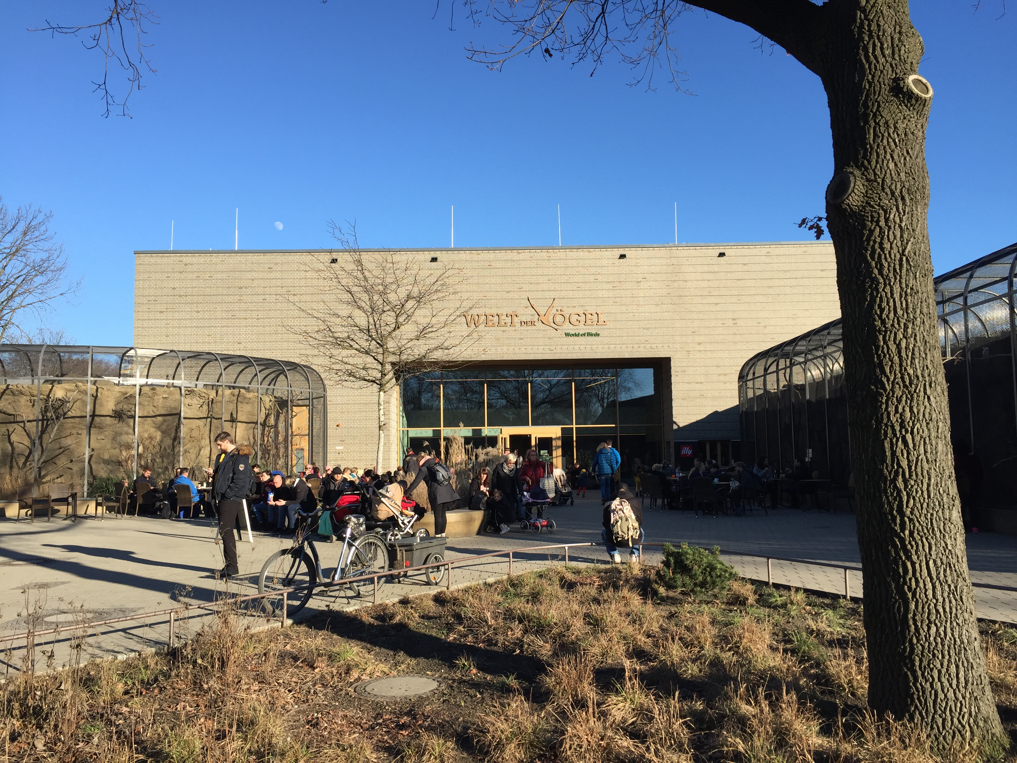 Bird area in Berlin zoo, called "World of Birds".